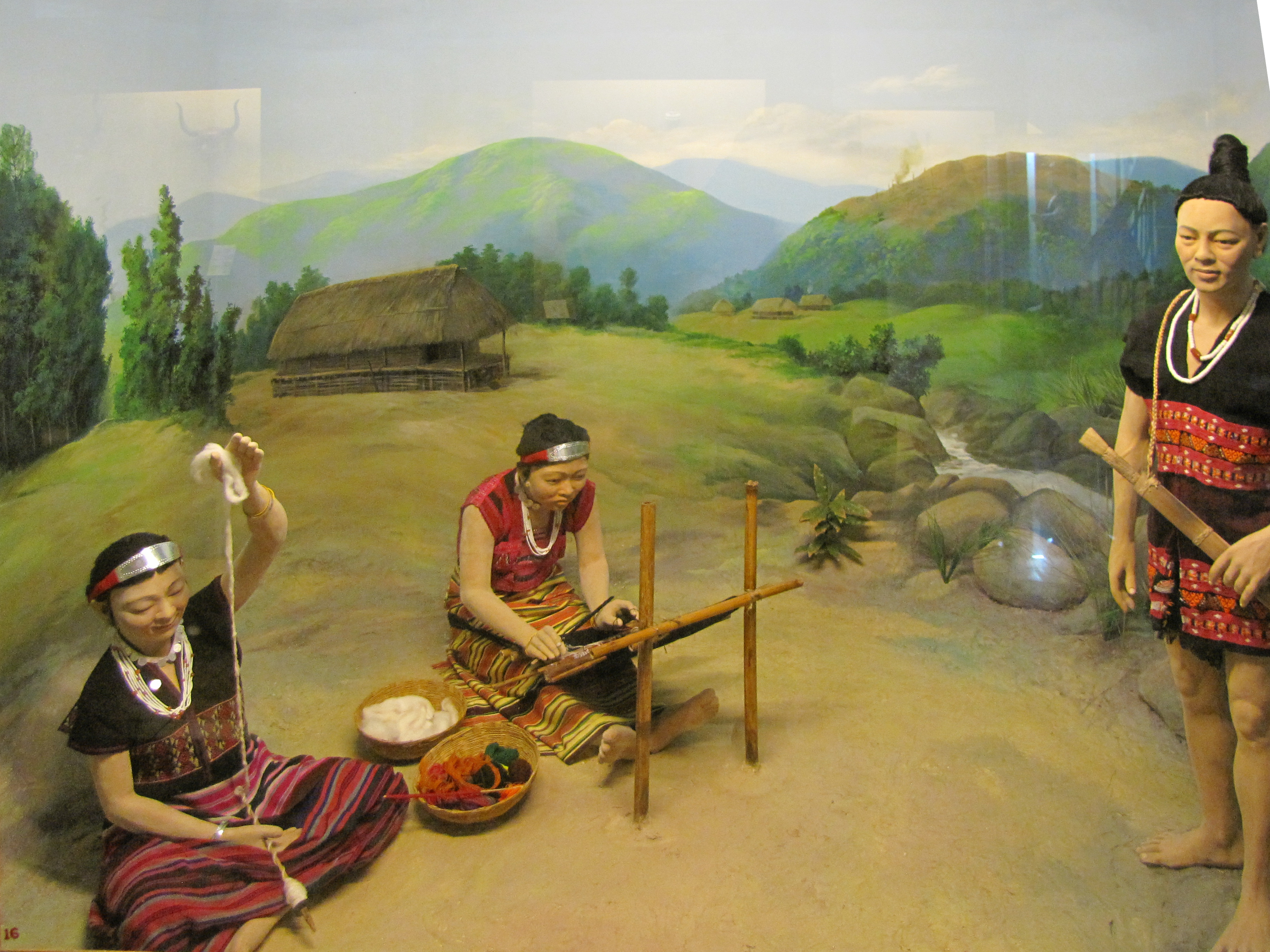 Diorama of Kaman people at Jawaharlal Nehru Museum, Itanagar, Arunachal Pradesh, India.